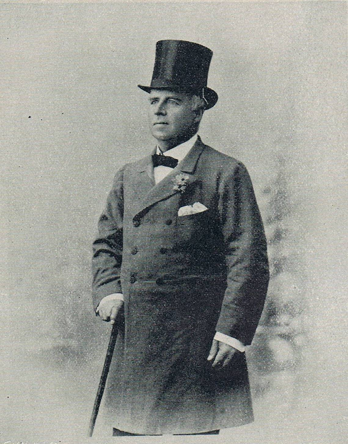 Scan from original